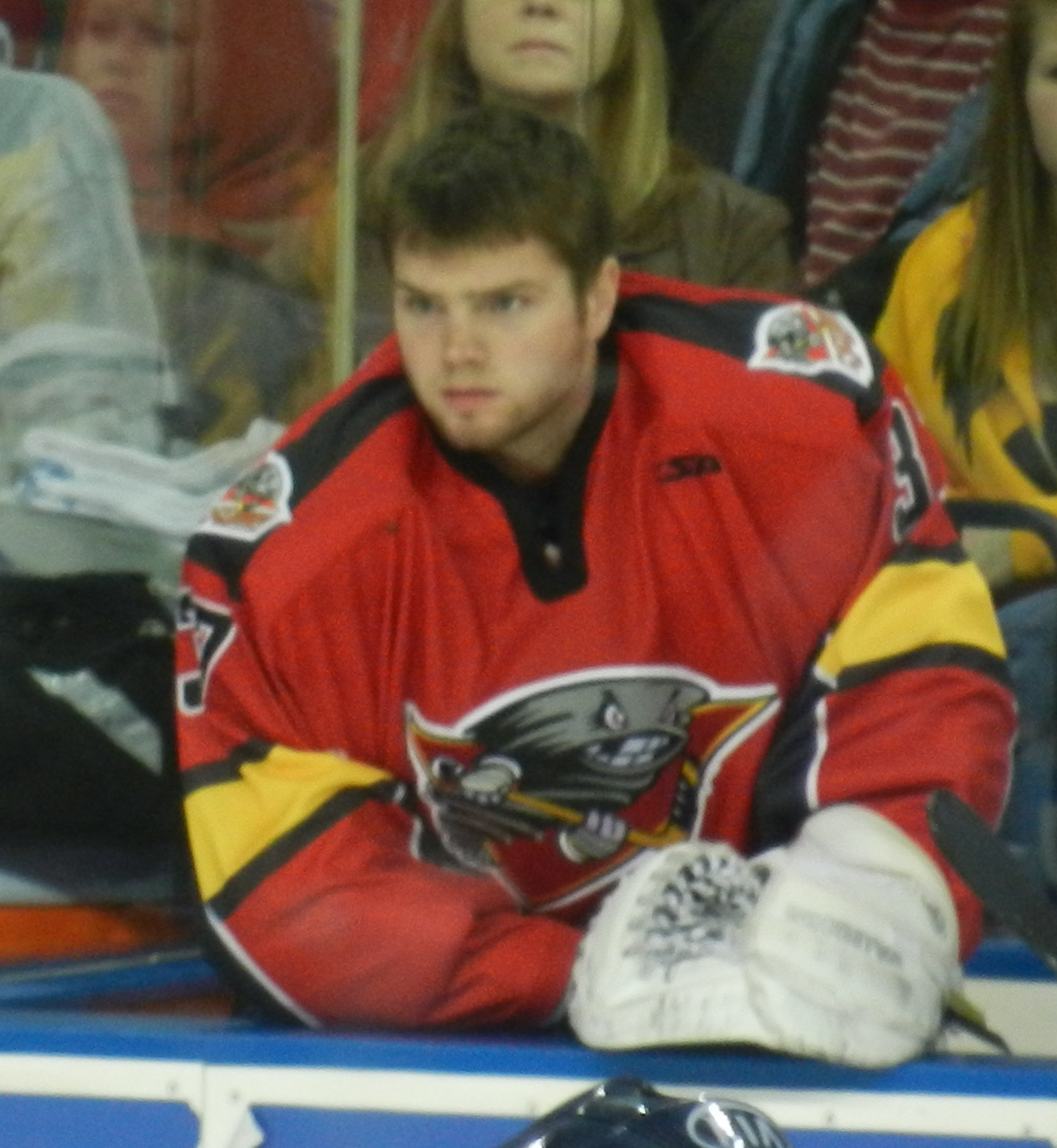 Chet Pickard as the back-up goaltender for the Cincinnati Cyclones during 2011-12 ECHL season